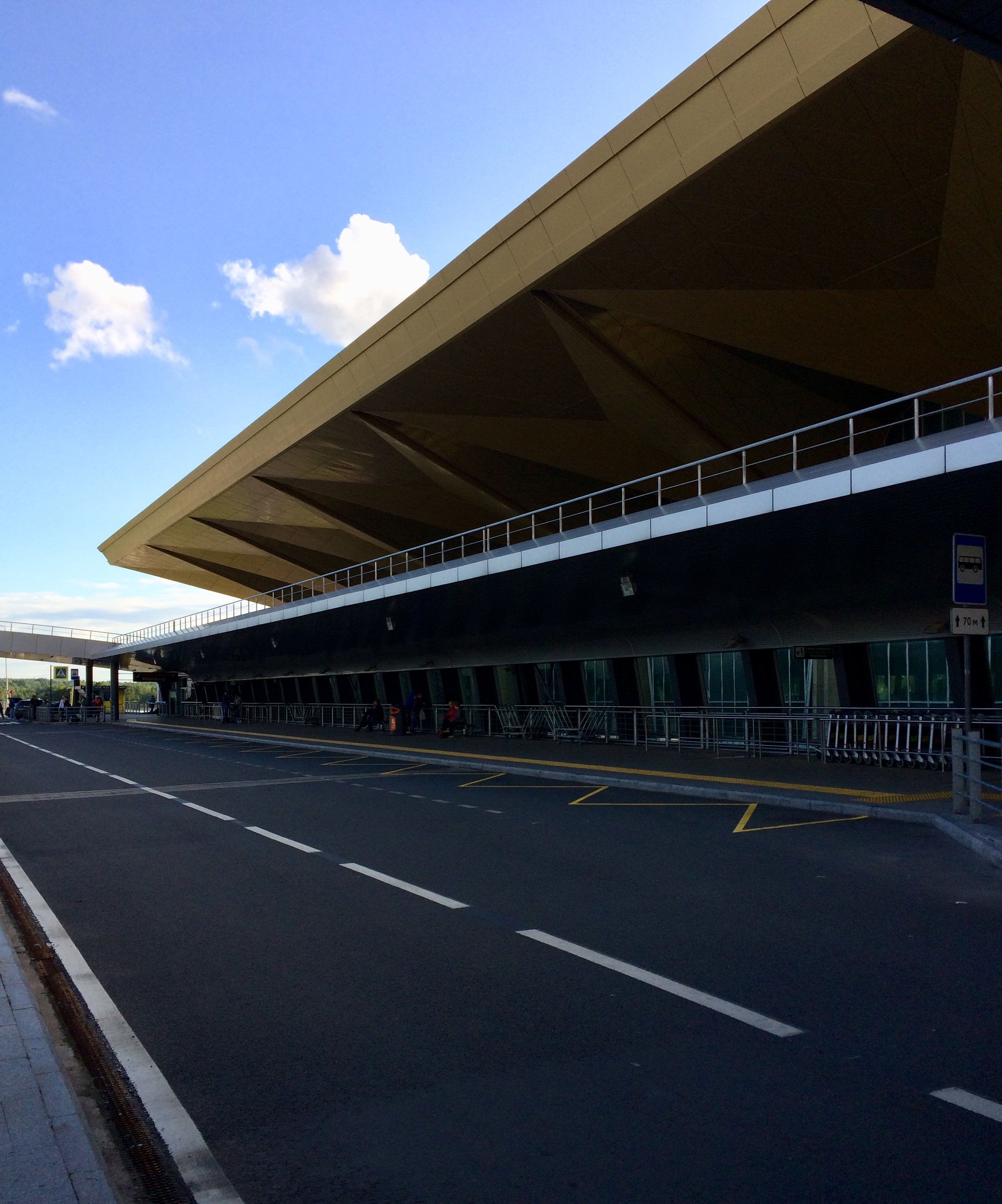 The new Pulkovo airport terminal from outside